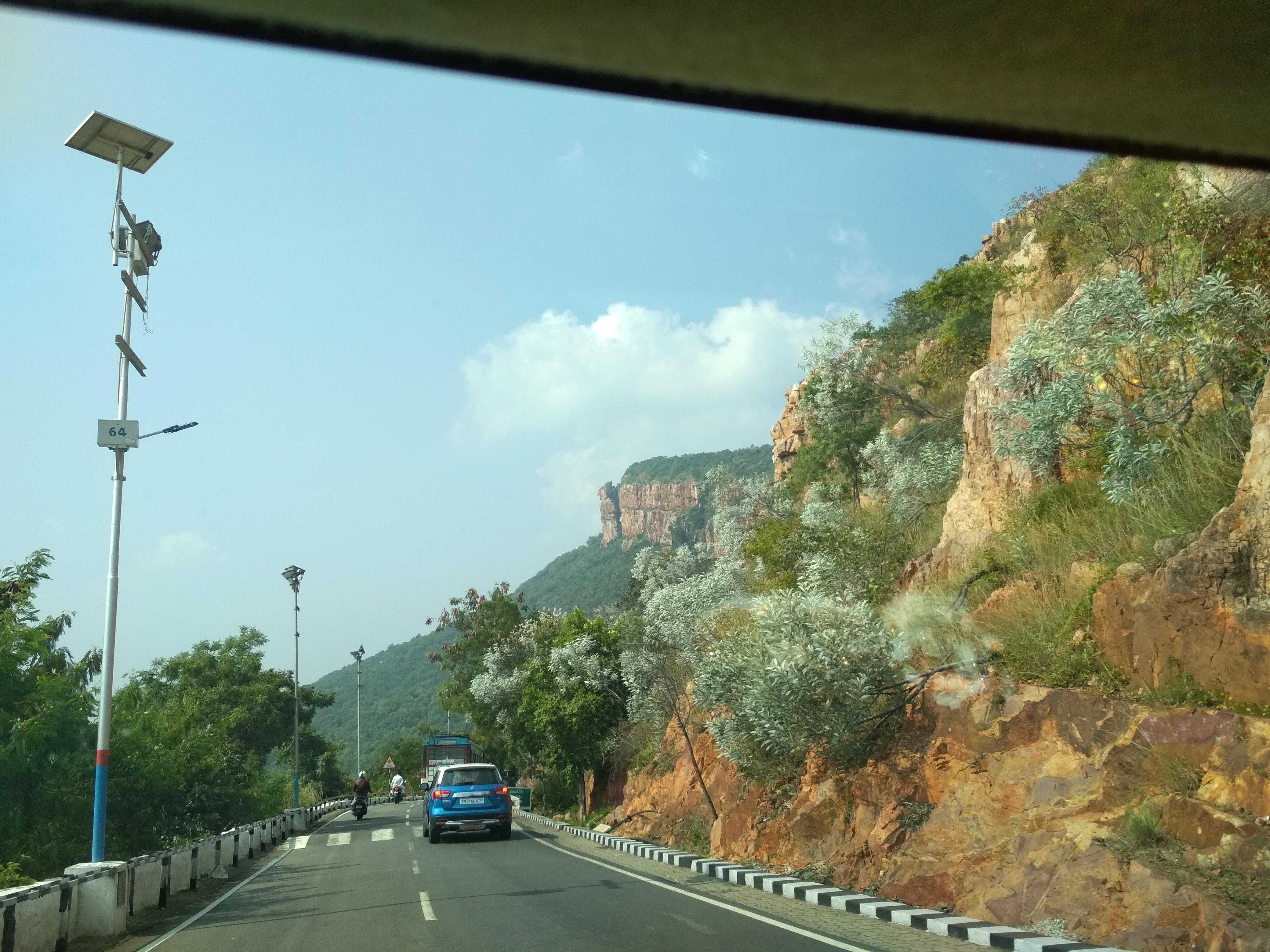 Garudasila at Tirupati, the stones on the hill form the shape of Garuda, Garutmantudu, the divine eagle of lord Vishnu.